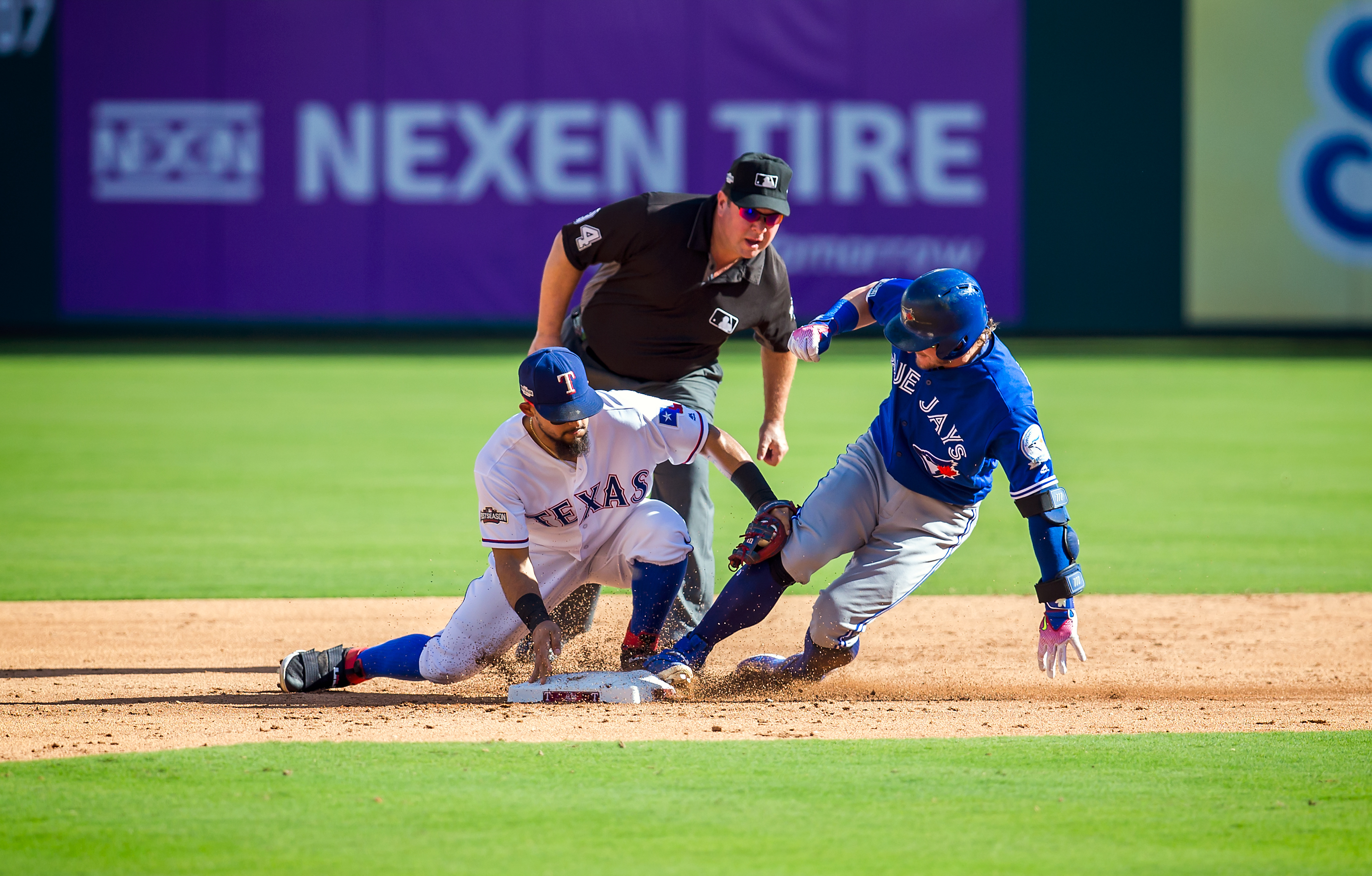 Josh Donaldson slides into second base before Rougned Odor applies the tag, with umpire Sam Holbrook watching the play